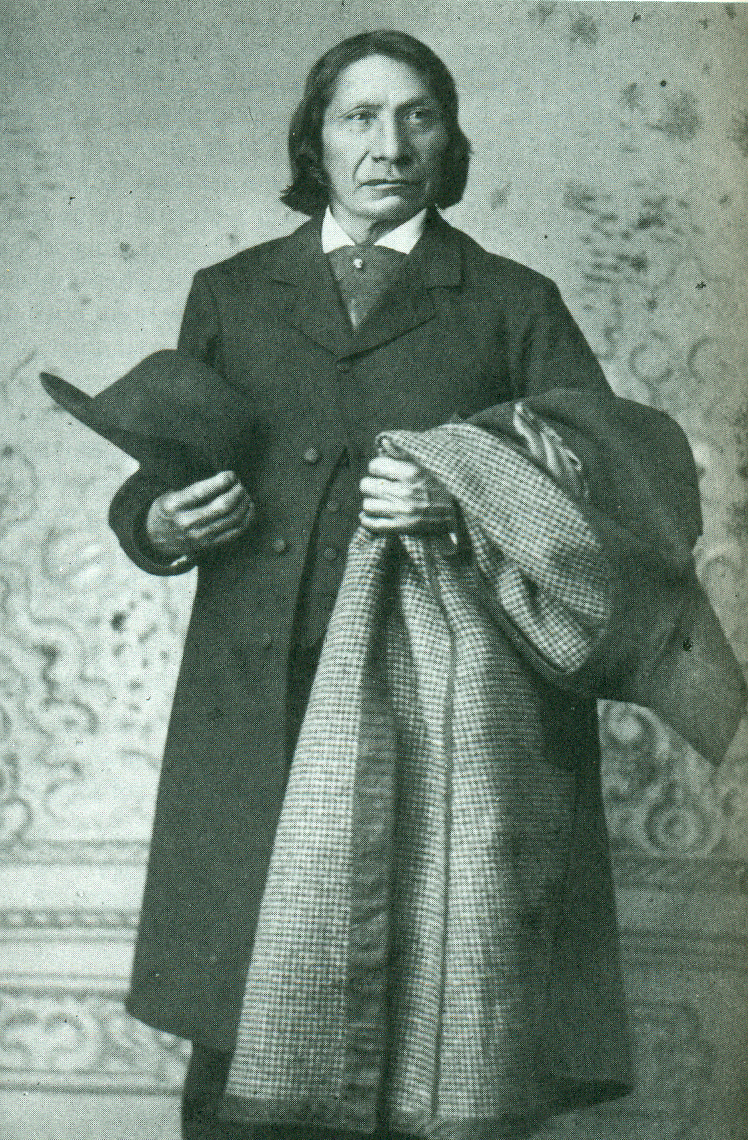 Chief Red Cloud, Oglala Lakota, at Carlisle, PA., 1880. Other information No.